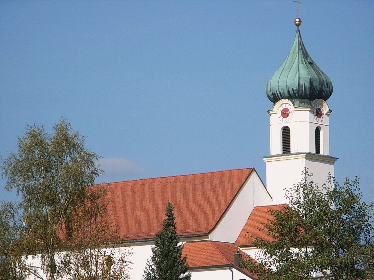 Ruderting, St Joseph Parish Church from south-west.